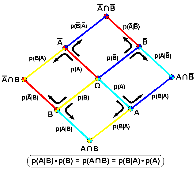 Illustration of Bayes' Theorem by two joined 2-dimensional tree diagrams